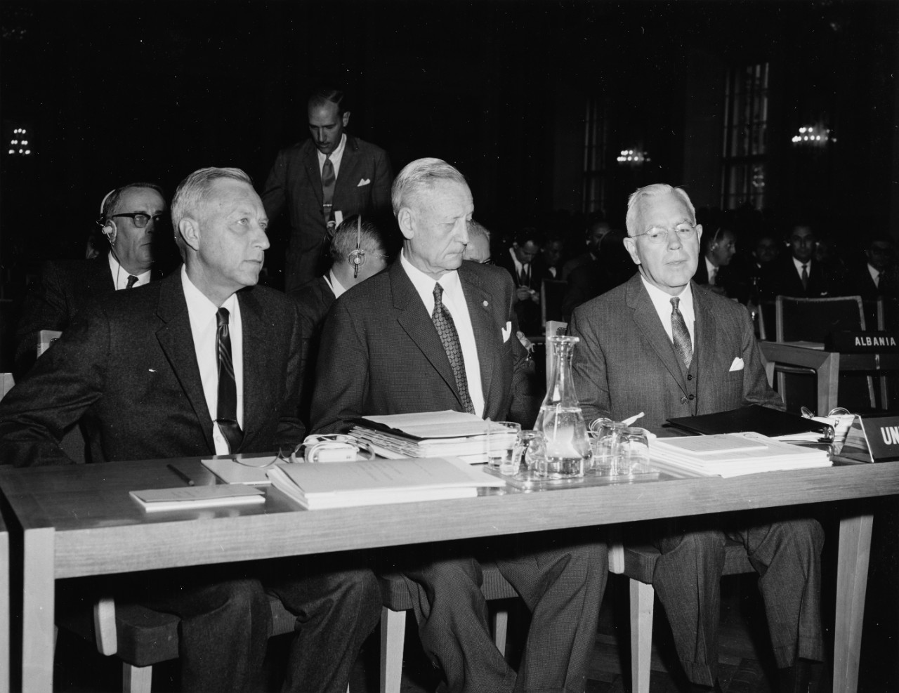 U.S. Delegates to the Fourth General Conference of the International Atomic Energy Agency photographed at Vienna, Austria, circa 1960. The delegates are left to right: Ambassador John S. Graham, Paul F. Foster, Permanent U.S. Representative to the IAEA, and John A. McCone, Chairman of the U.S. Atomic Energy Commission.